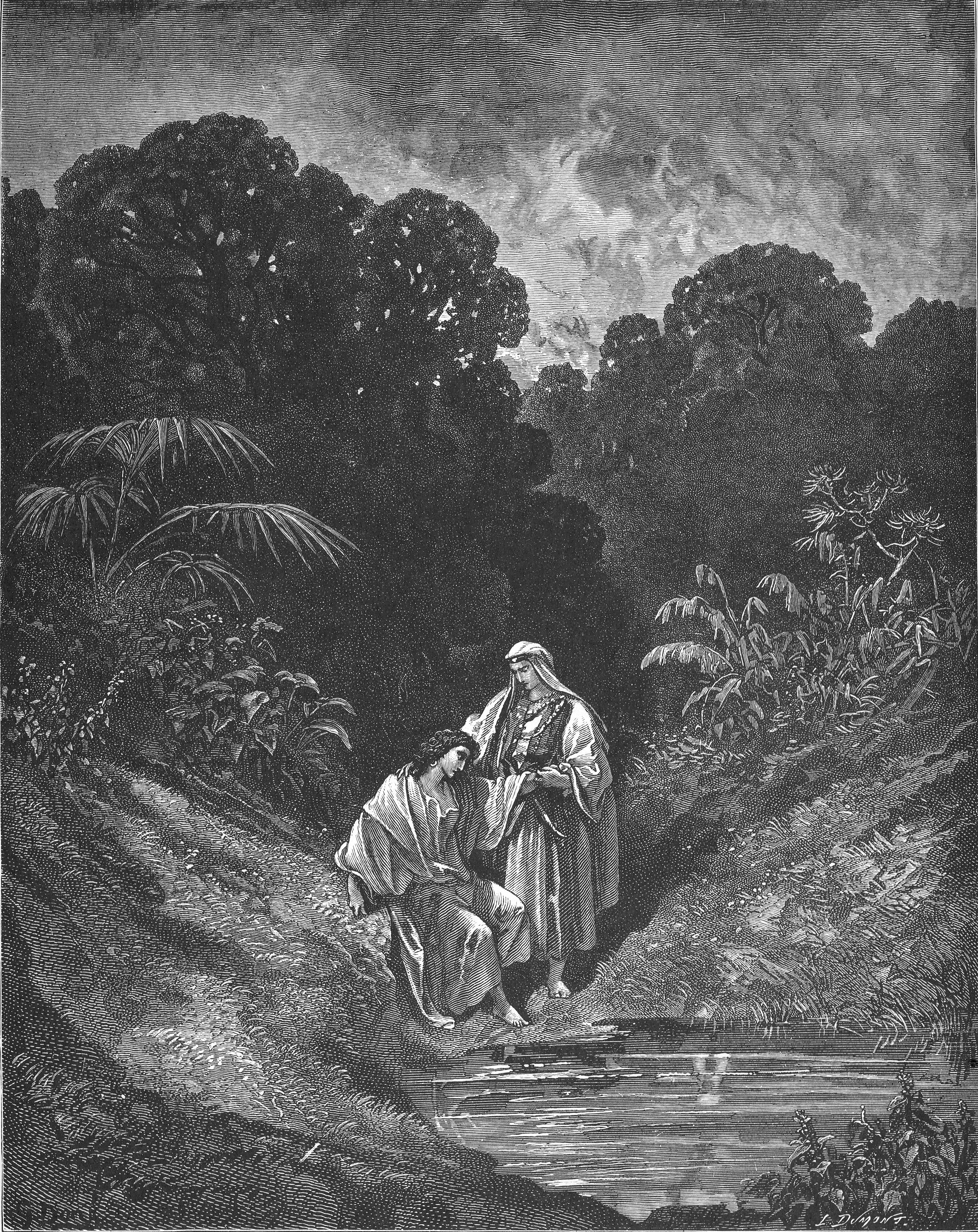 David and Jonathan (1Sam. 20:42)